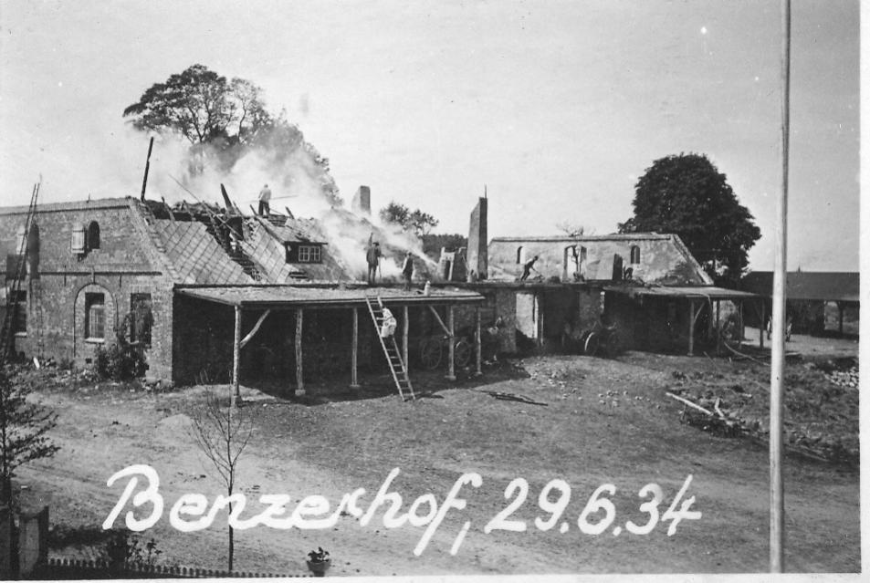 Cowshed after burning Germany in Benz near Malente